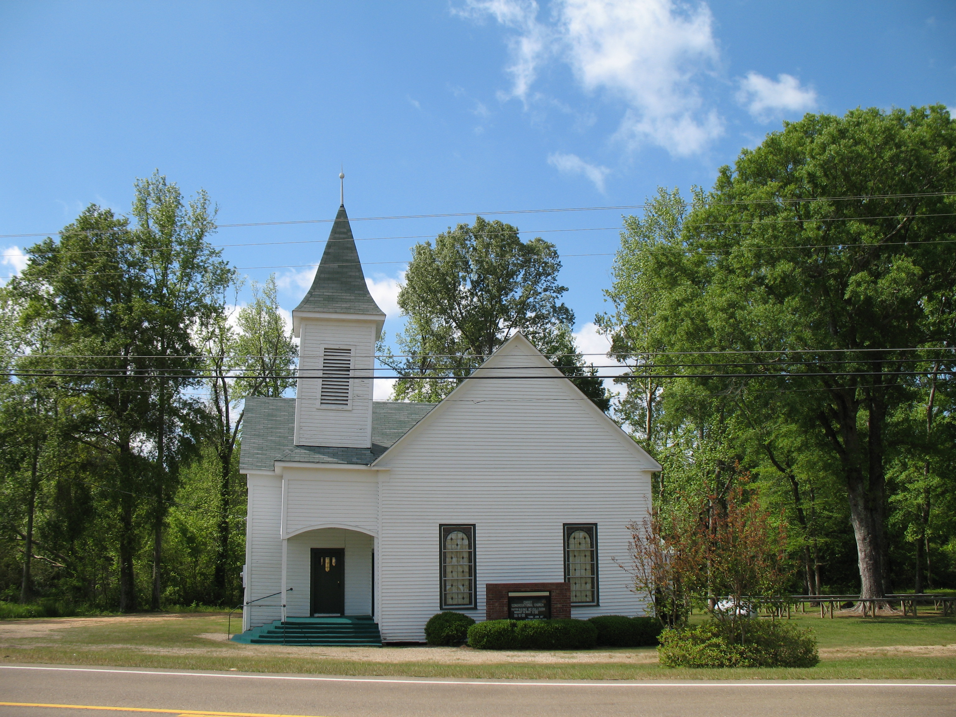 Highway 18, Rankin County, Mississippi. Except for the ugly power lines in front of it, this is a pretty church.